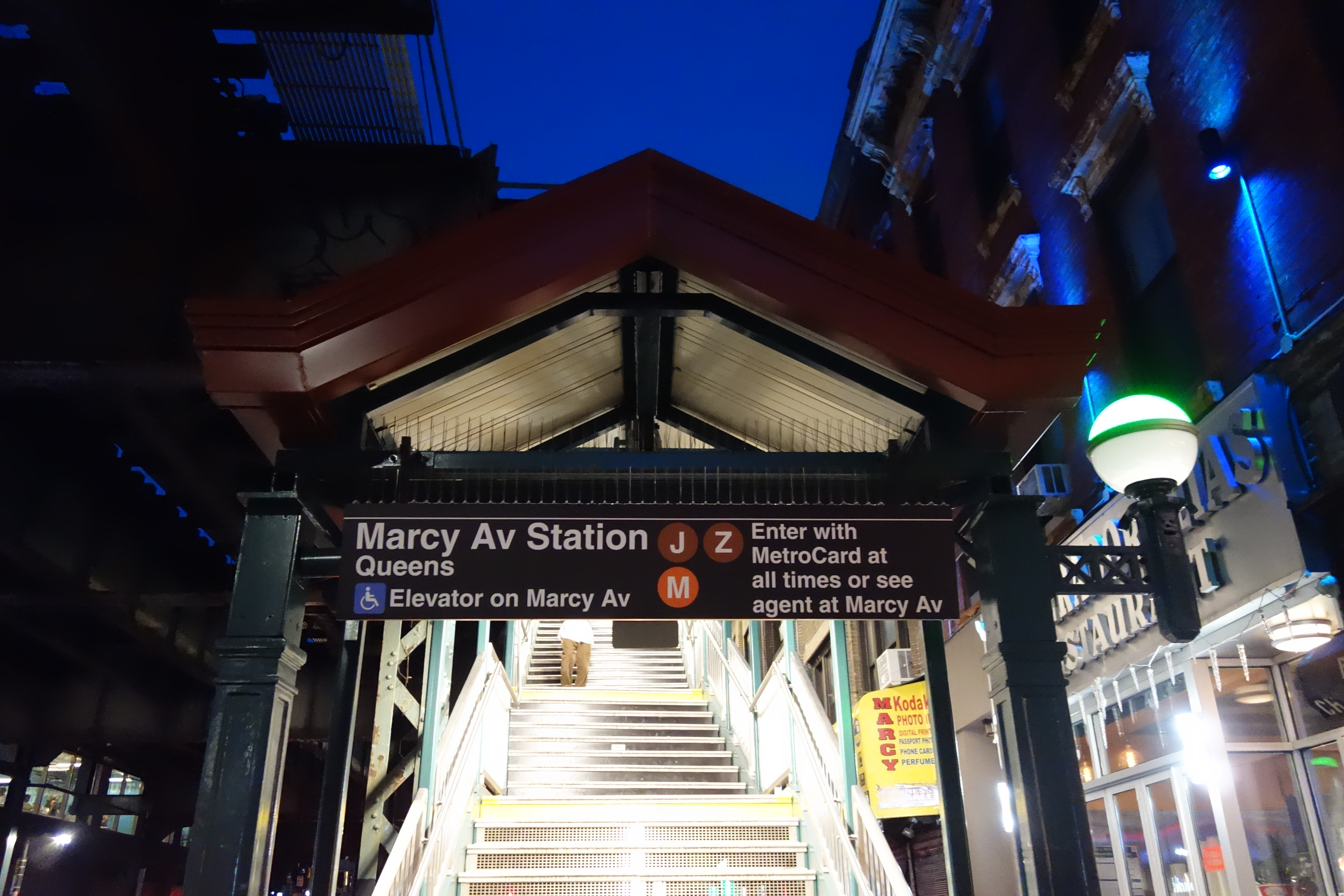 The entrance to the Brooklyn and Queens-bound platform of the Marcy Avenue BMT station, at the southeast corner of Broadway and Havemeyer Street in Williamsburg, Brooklyn. Note how well illuminated the underside of the shelter is.